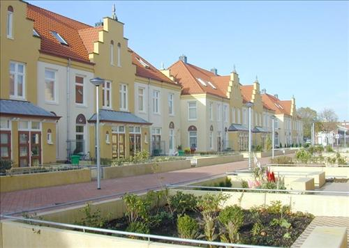 Het Fort, Schilderswijk, The Hague, Netherlands